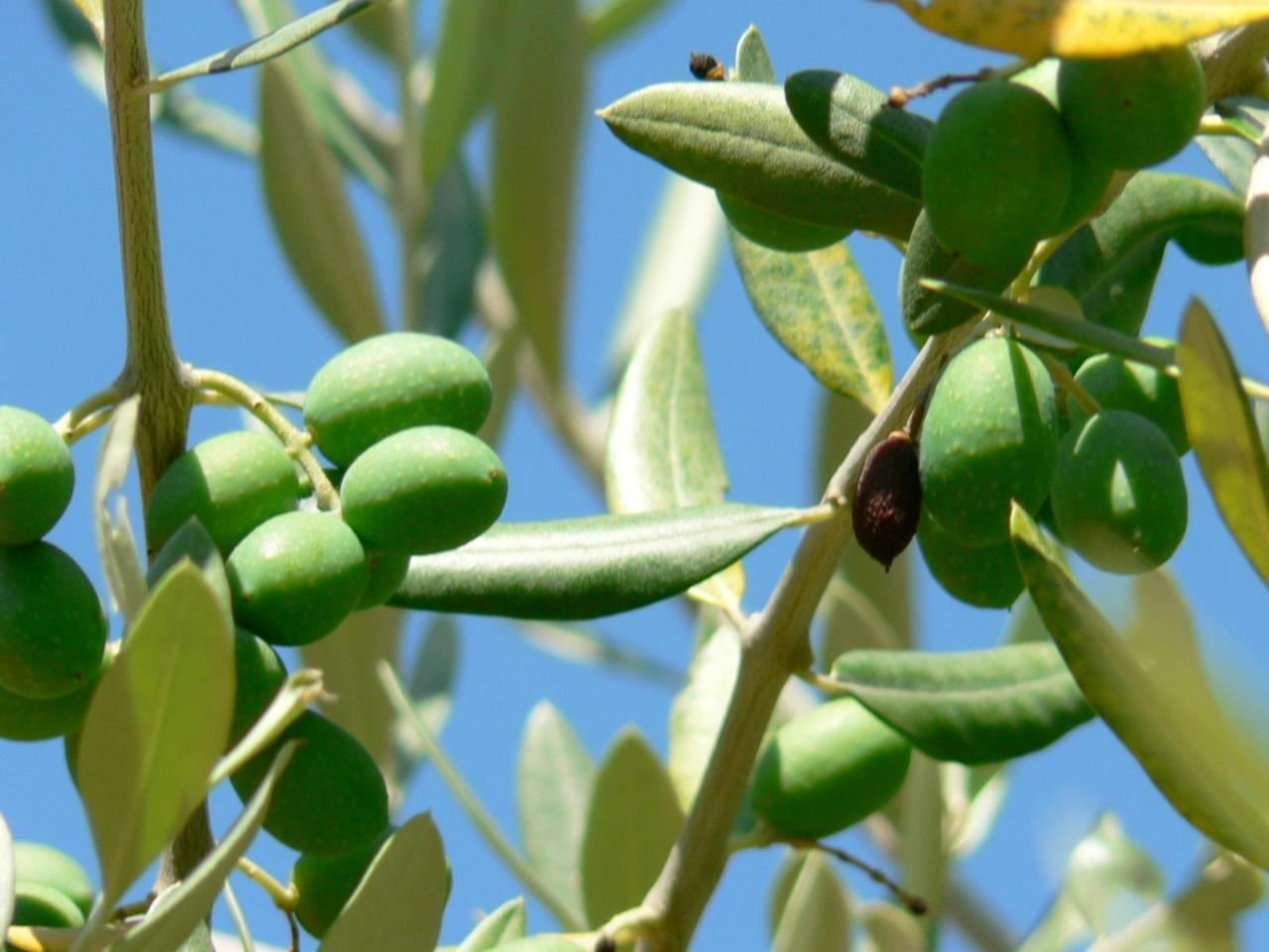 Image title: Immature green olives Image from Public domain images website